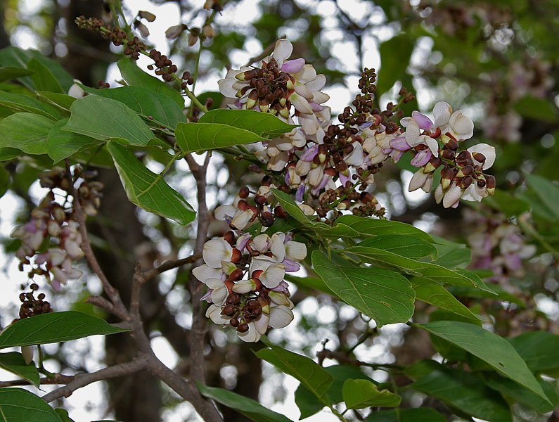 Pongamia pinnata - Karanj, Indian Beech Tree, Honge Tree, Pongam Tree or Panigrahi at Deer Park in Shamirpet, Rangareddy district, Andhra Pradesh, India.